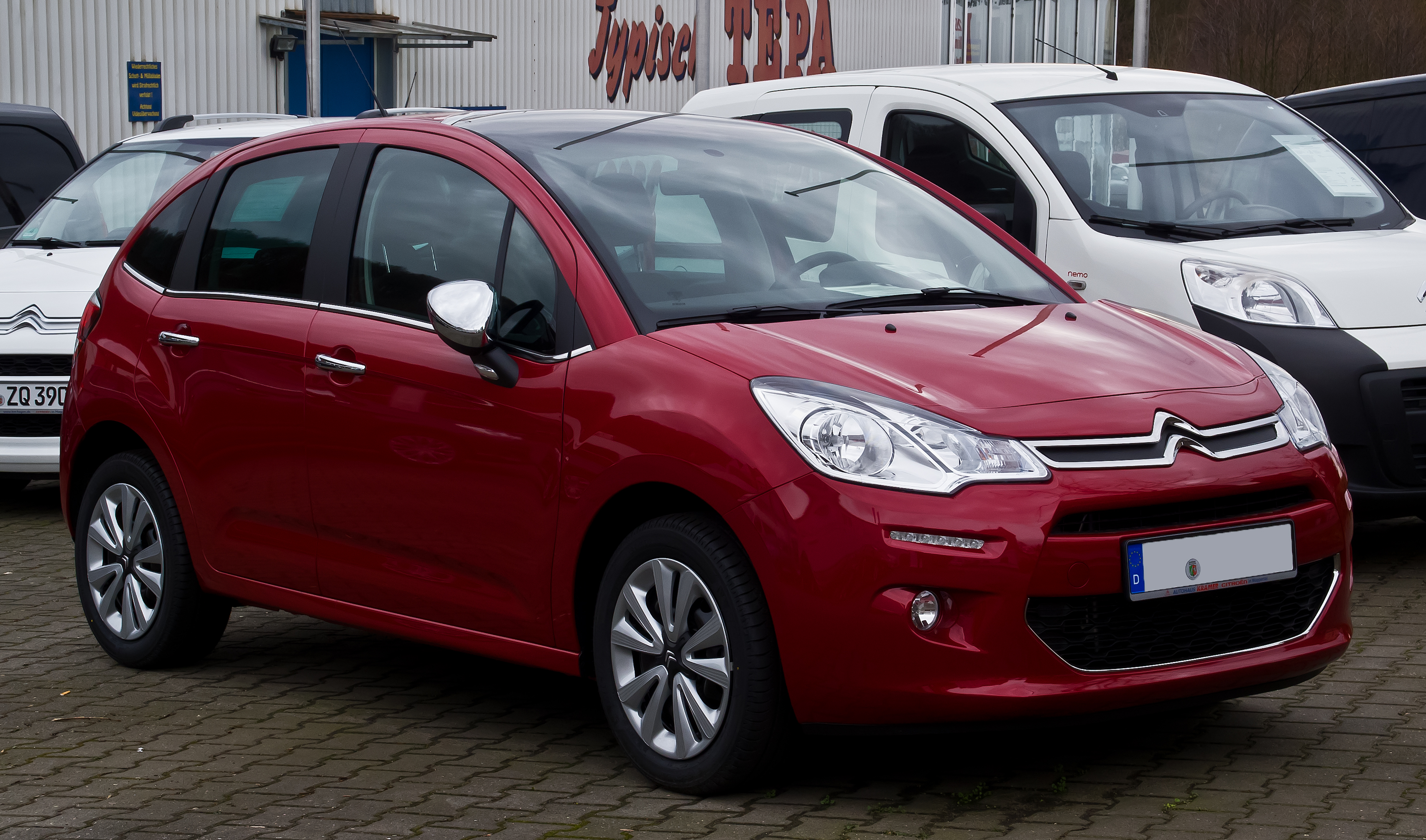 Citroën C3 VTi 82 Selection (II, Facelift)